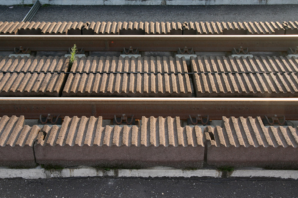 Slab track on the Cologne-Frankfurt high-speed railway line with sound absorbers